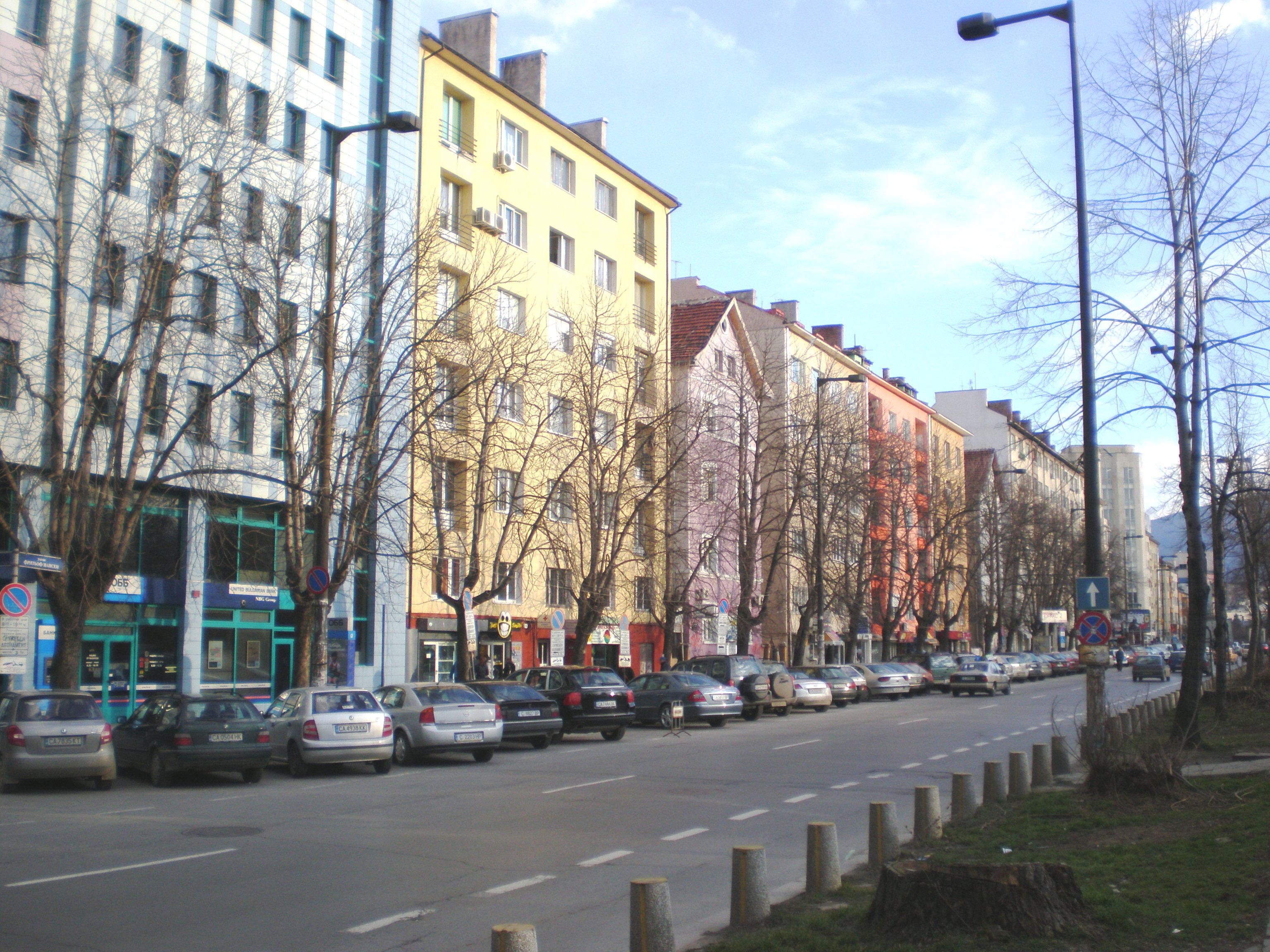 Fridtjof Nansen boulevard - Sofia, Bulgaria